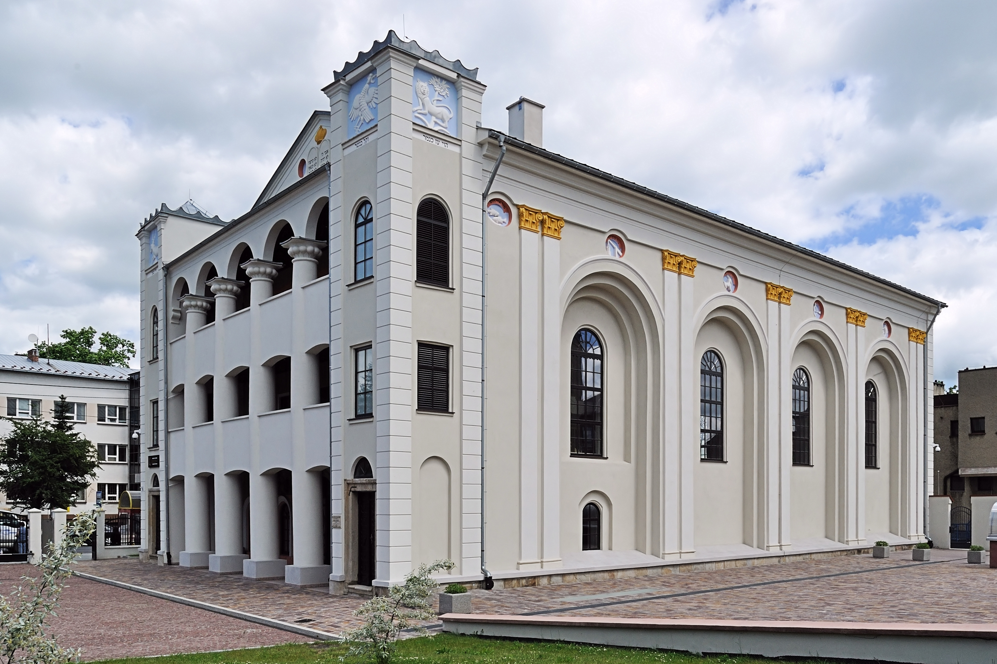 Synagogue in Dąbrowa Tarnowska